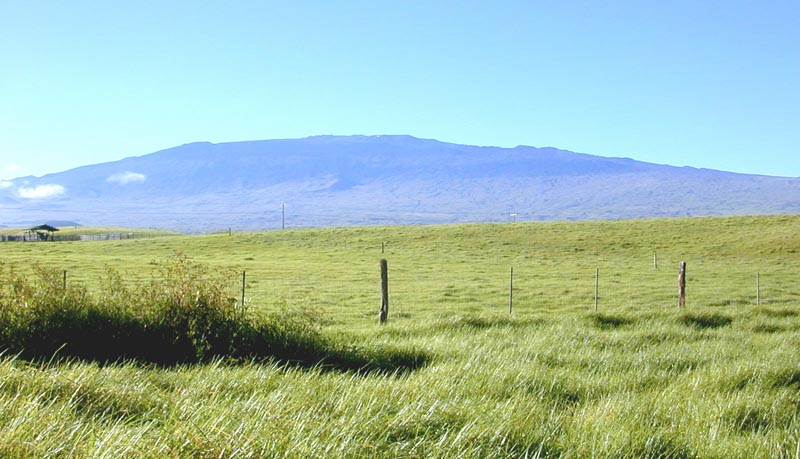 Hualalai volcano on the Island of Hawai'i in the Hawaiian Islands as seen from vicinity of Waimea. Photographed June 3, 2004 by Eric Guinther and donated to Wikipedia. Category:Volcanoes of the Island of Hawaii Category:Images of Hawaii Here is a more accurate picture of hualalai volcano